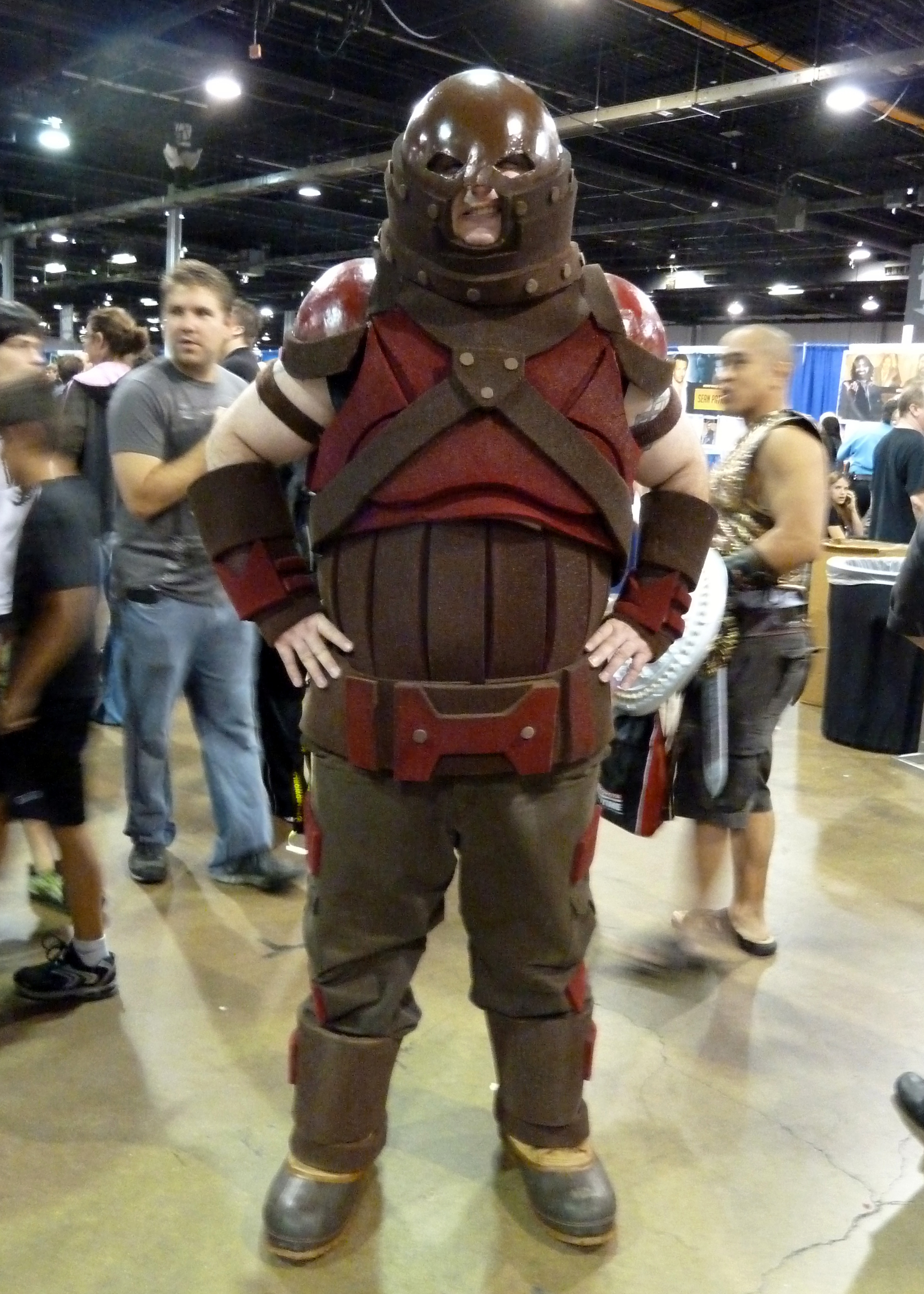 075 Cosplay at Wizard World Chicago 2012.